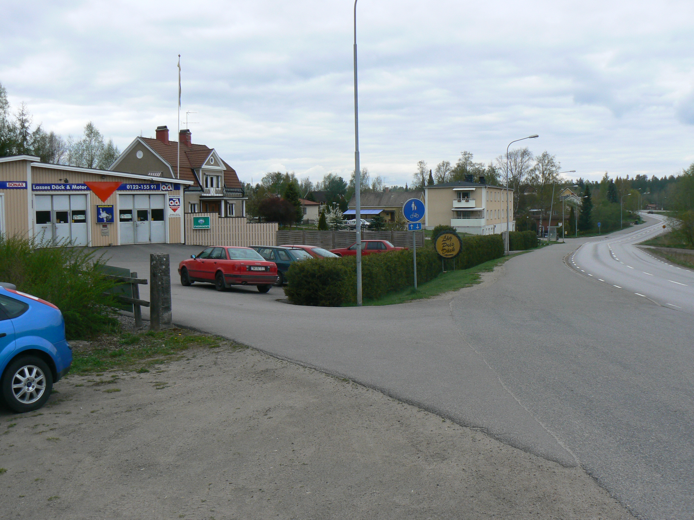 Picture from Falla, village in Finspång Municipality, Östergötland, Sweden. County road 215 at right.